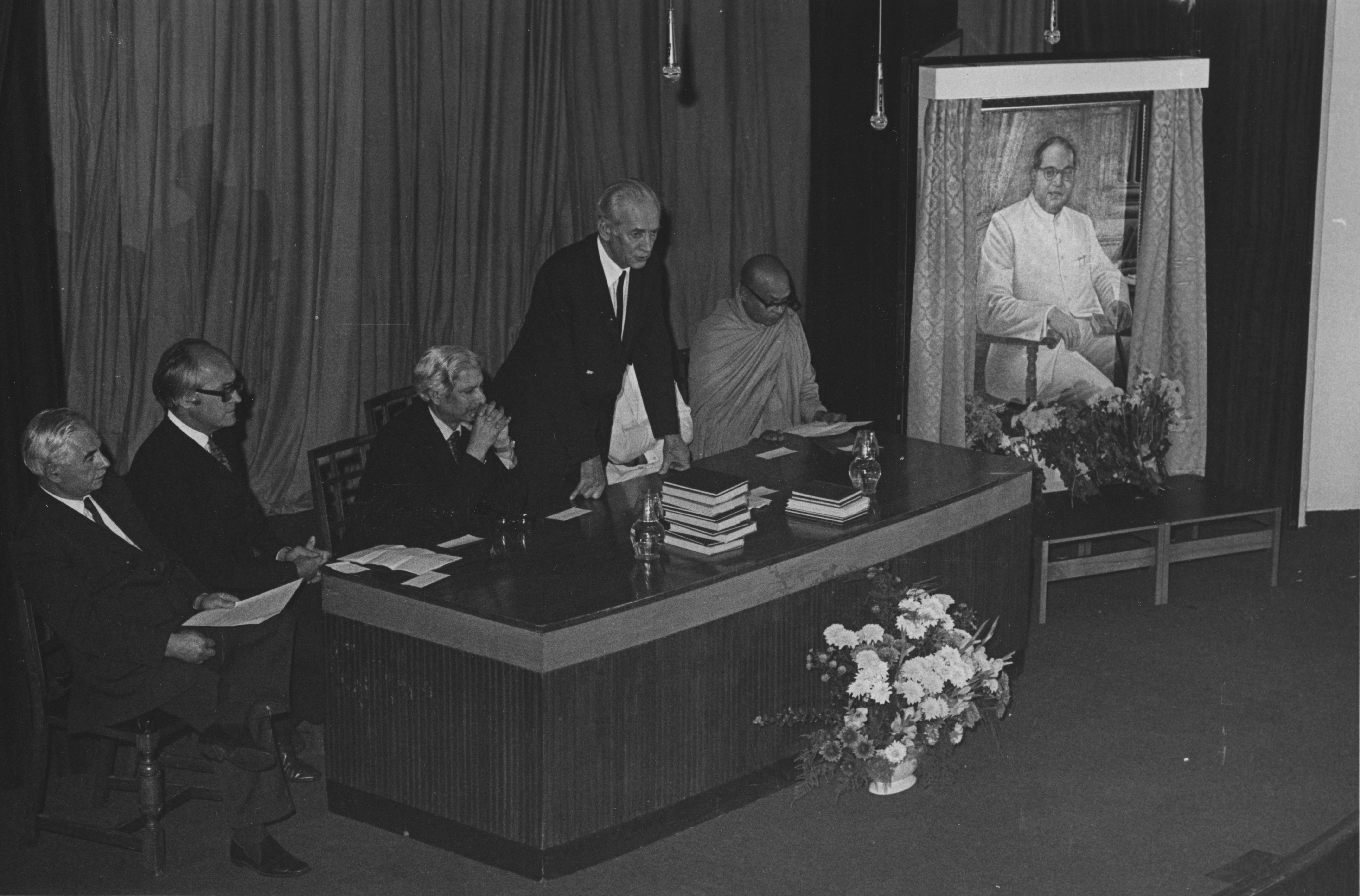 Presentation of portrait of Dr B.R. Ambedkar by the Dr Ambedkar Memorial Committee, Great Britain Left to right: Professor Arthur John (Pro Director), Mr D. A. Clarke (Librarian), Mr M. Rasgotra (Acting High Commissioner for India), Sir Walter Adams, Ven Dr H. Saddatissa (Head of London Buddha Vihara) The portrait was painted by Mr G.S. Nagdeva 'Dr Ambedkar was a student at the London School of Economics from 1916-1923 and was awarded the degree of MSc (Economics) in 1921 and DSc (Economics) in 1923...He played a leading part in drawing up the Indian Constitution and is also greatly revered by many in India for his work as a social reformer...' LSE Magazine, November 1973, p.15 IMAGELIBRARY/650 Persistent URL